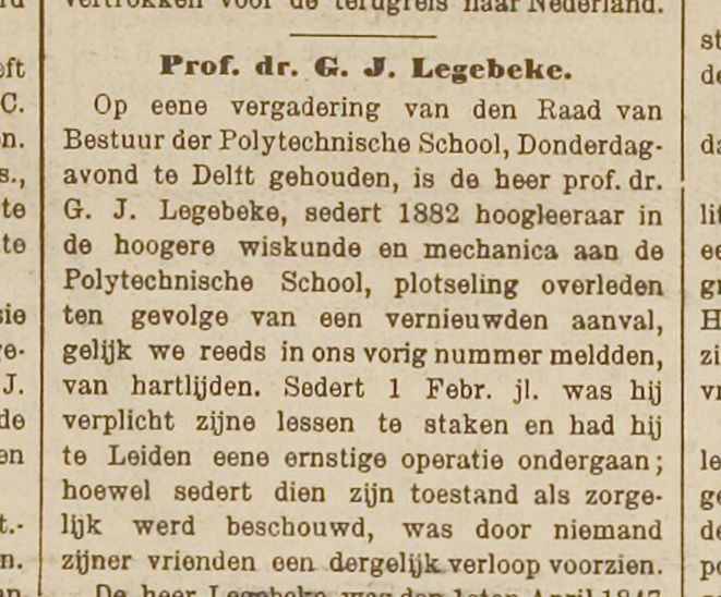 Overlijdensbericht in Leidsch Dagblad, 23 mei 1893